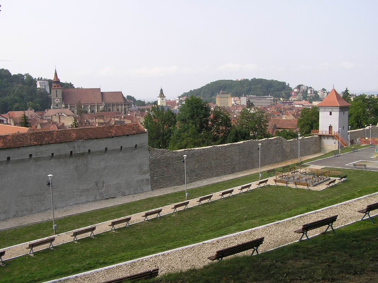 Braşov city walls under the Tâmpa